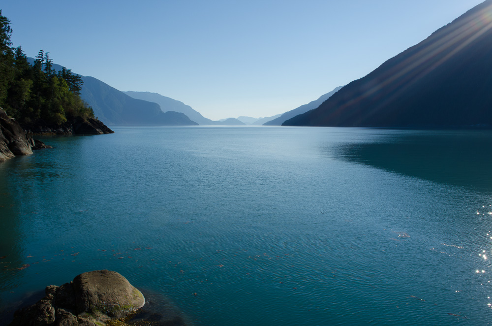 Bute Inlet, British Colombia